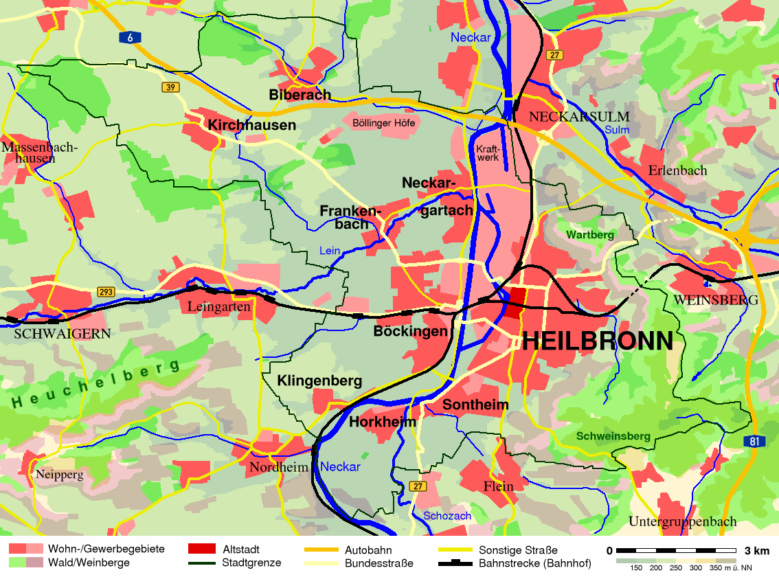 Map of Heilbronn (Germany) and surrounding area